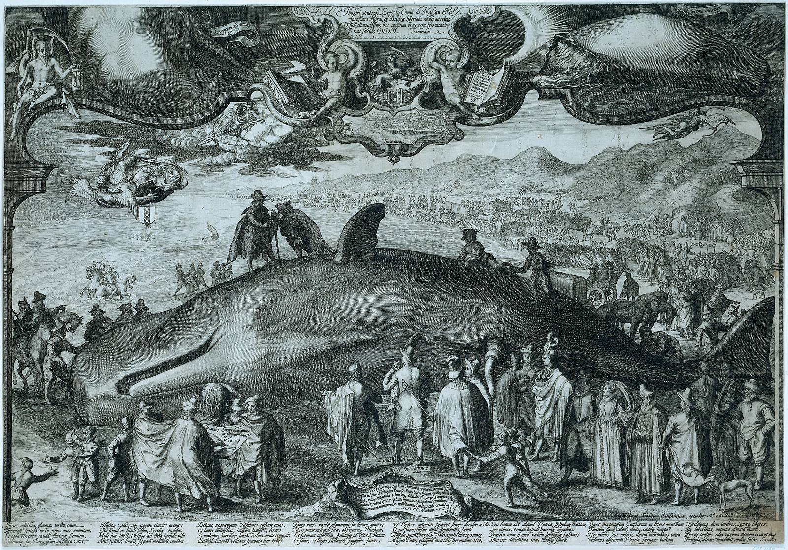 Beached wale near Beverwijk, 1601. Engraving. 411 × 597 mm. Amsterdam, Rijksmuseum Amsterdam, Prints (inv.no. RP-P-OB-4635).